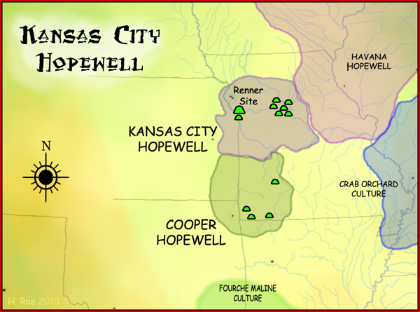 A map showing the Kansas City Hopewell and the Cooper Hopewell, local expressions of the Hopewell tradition.